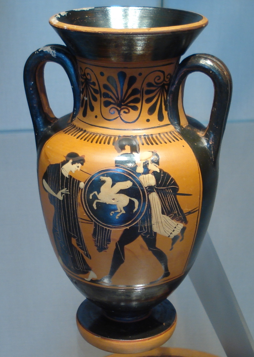 Aeneas carrying his father Anchises on his back during the fall of Troy. Attic black-figure neck-amphora.